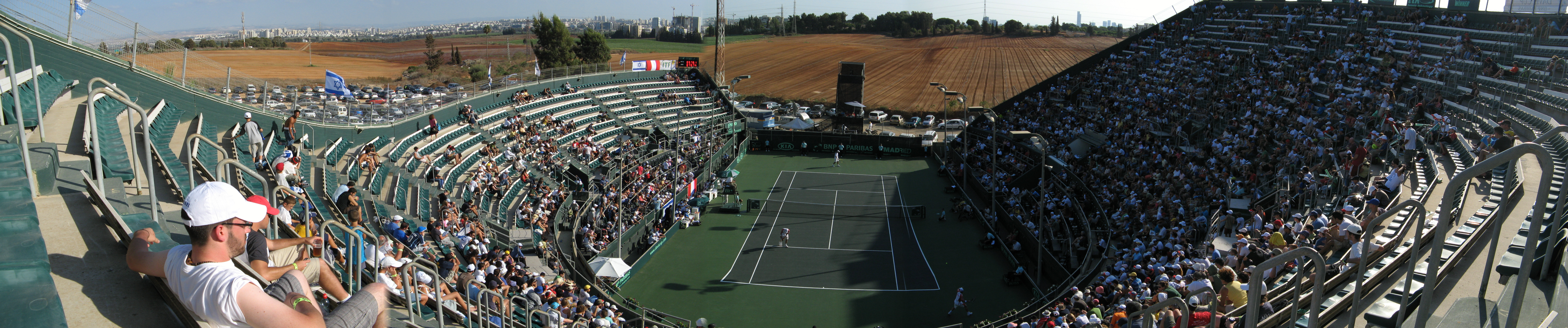 A panoramic picture of the Israeli tennis "Canada" stadium